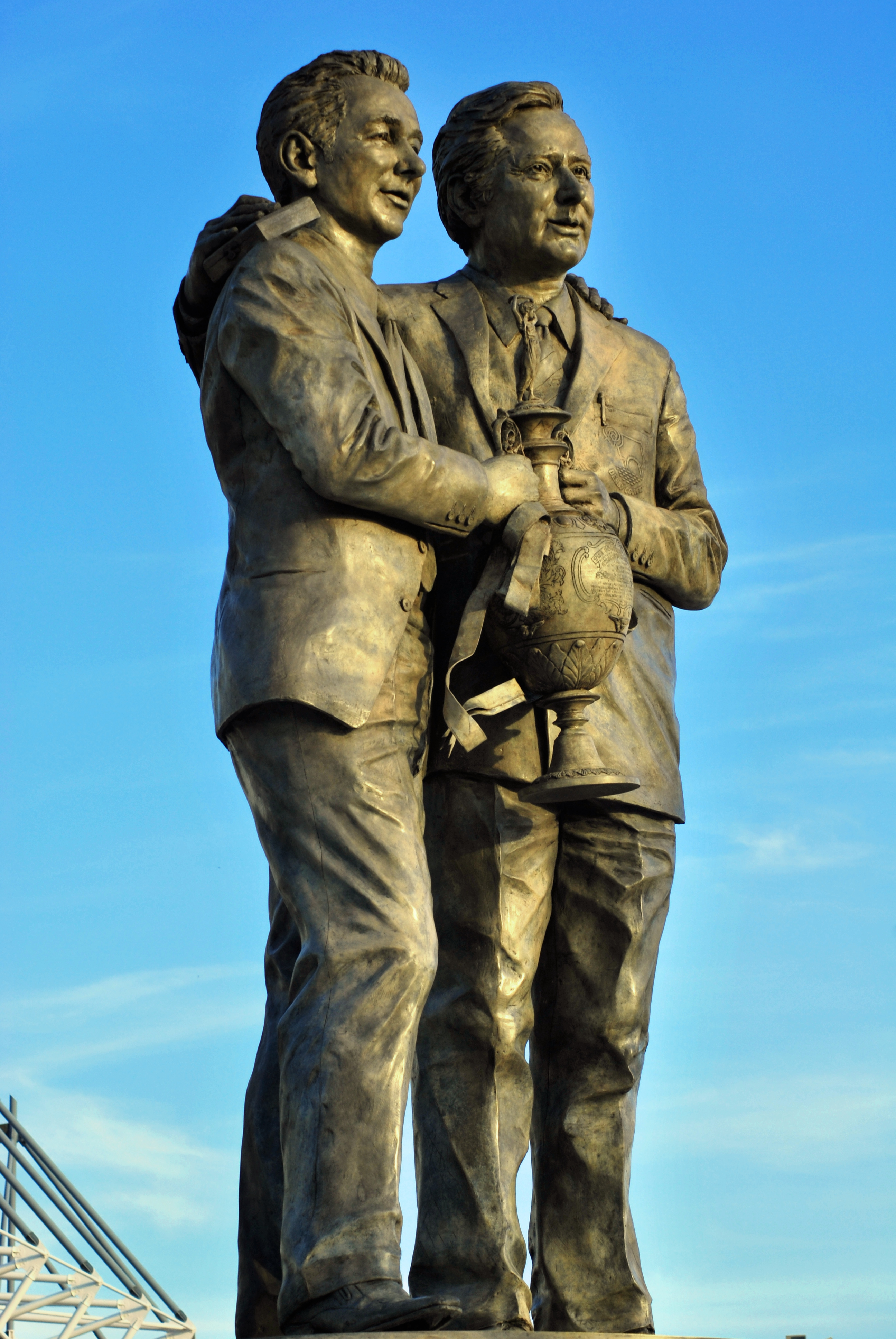 Brian Clough and Peter Taylor statue at Pride Park Stadium, Derby County Football Club, Derby England